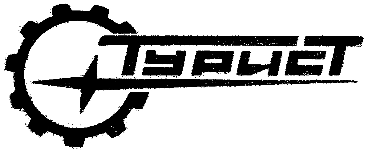 VTsSPS TsSTE Emblem. Since 1970